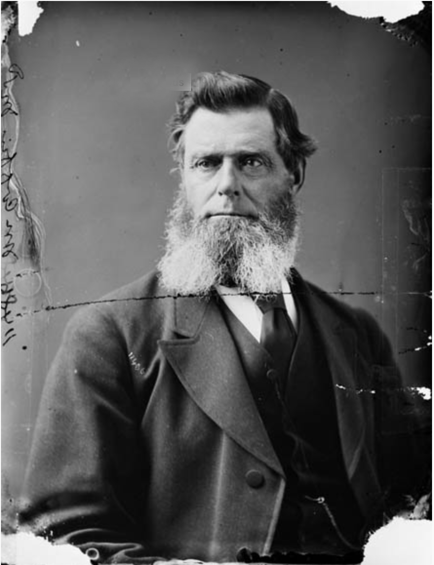 Out of copyright photograph of deceased photographer for use as reference image on his wikipedia article